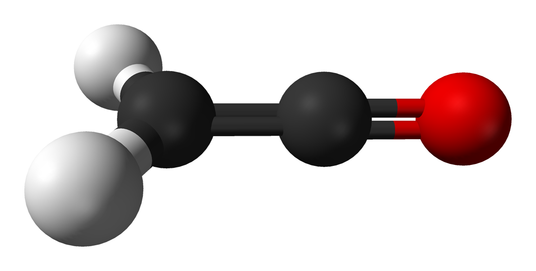 Ball-and-stick model of the ketene molecule